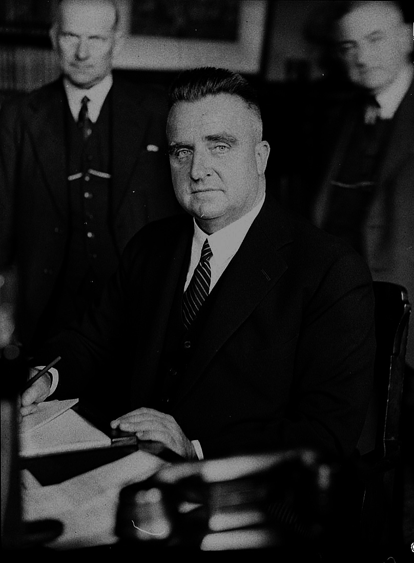 Sir Bertram Stevens (seated, centre), Premier of New South Wales (Australia) from 1932 to 1939, and members of his cabinet.